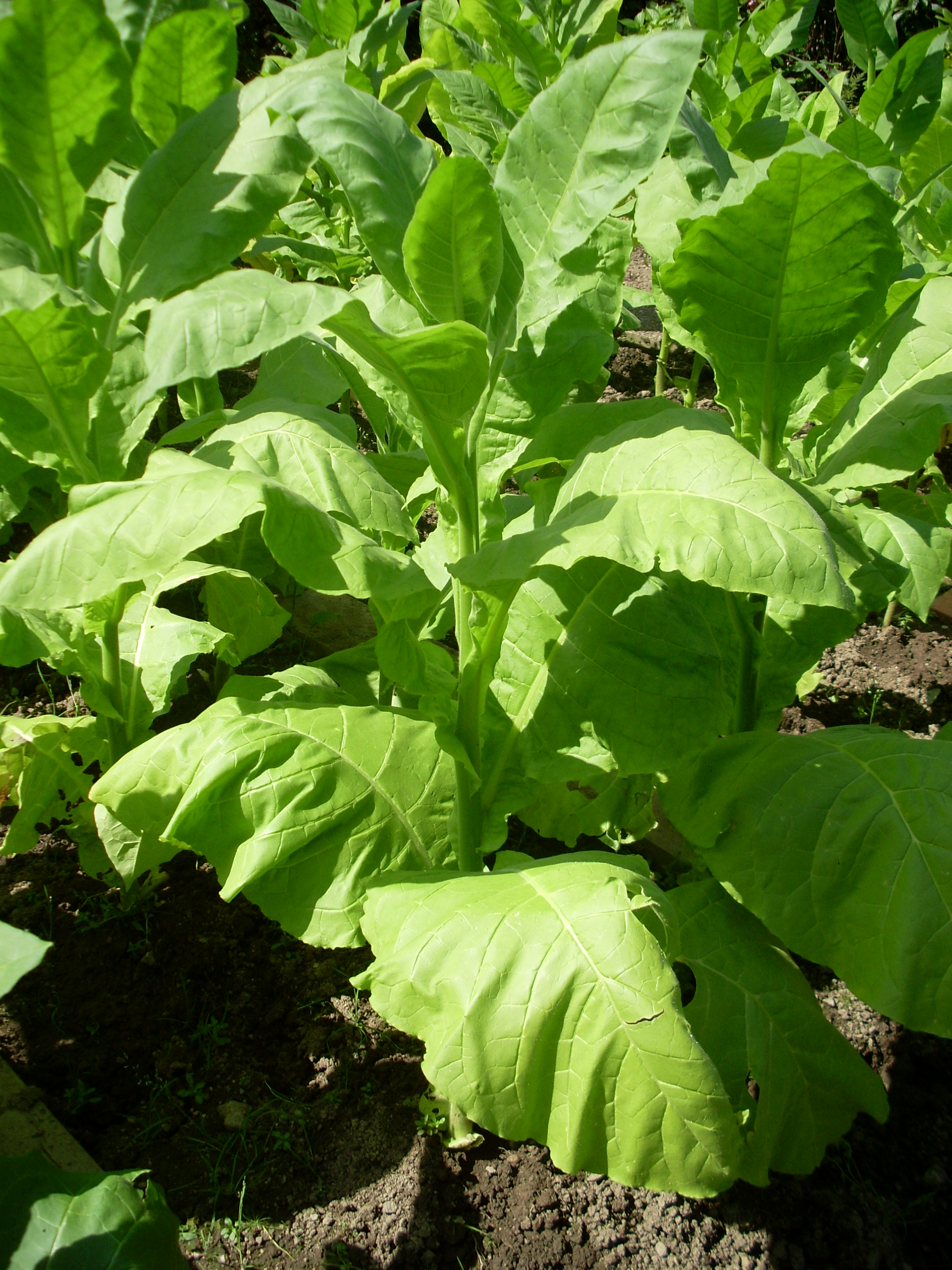 A tobacco plant of the sort Virginia Golta